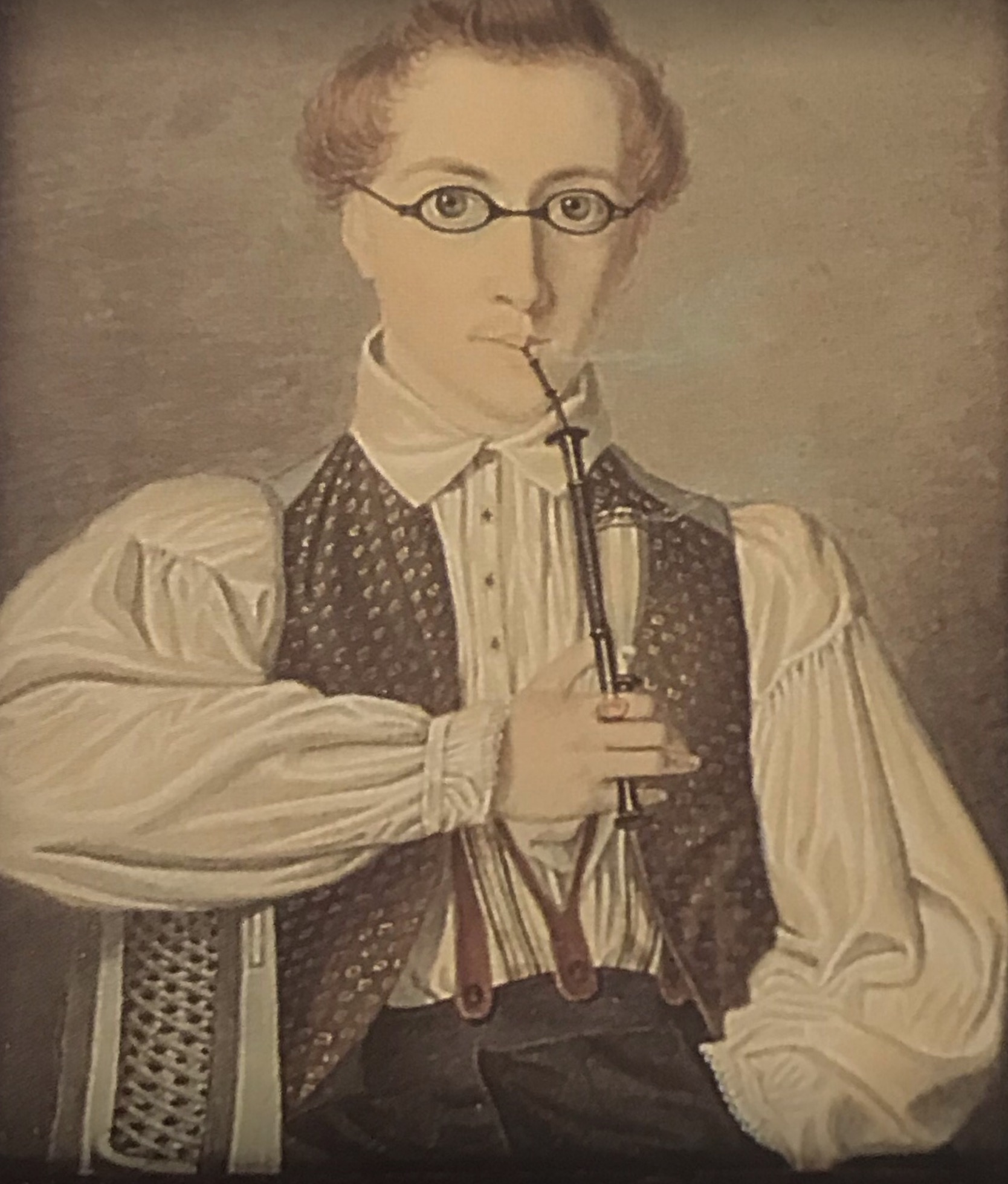 Corps Bavaria München